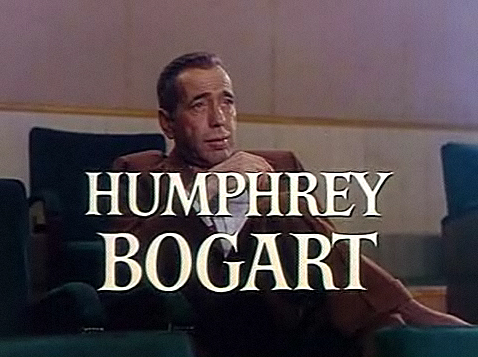 Screenshot of Humphrey Bogart from the trailer for the film The Barefoot Contessa.